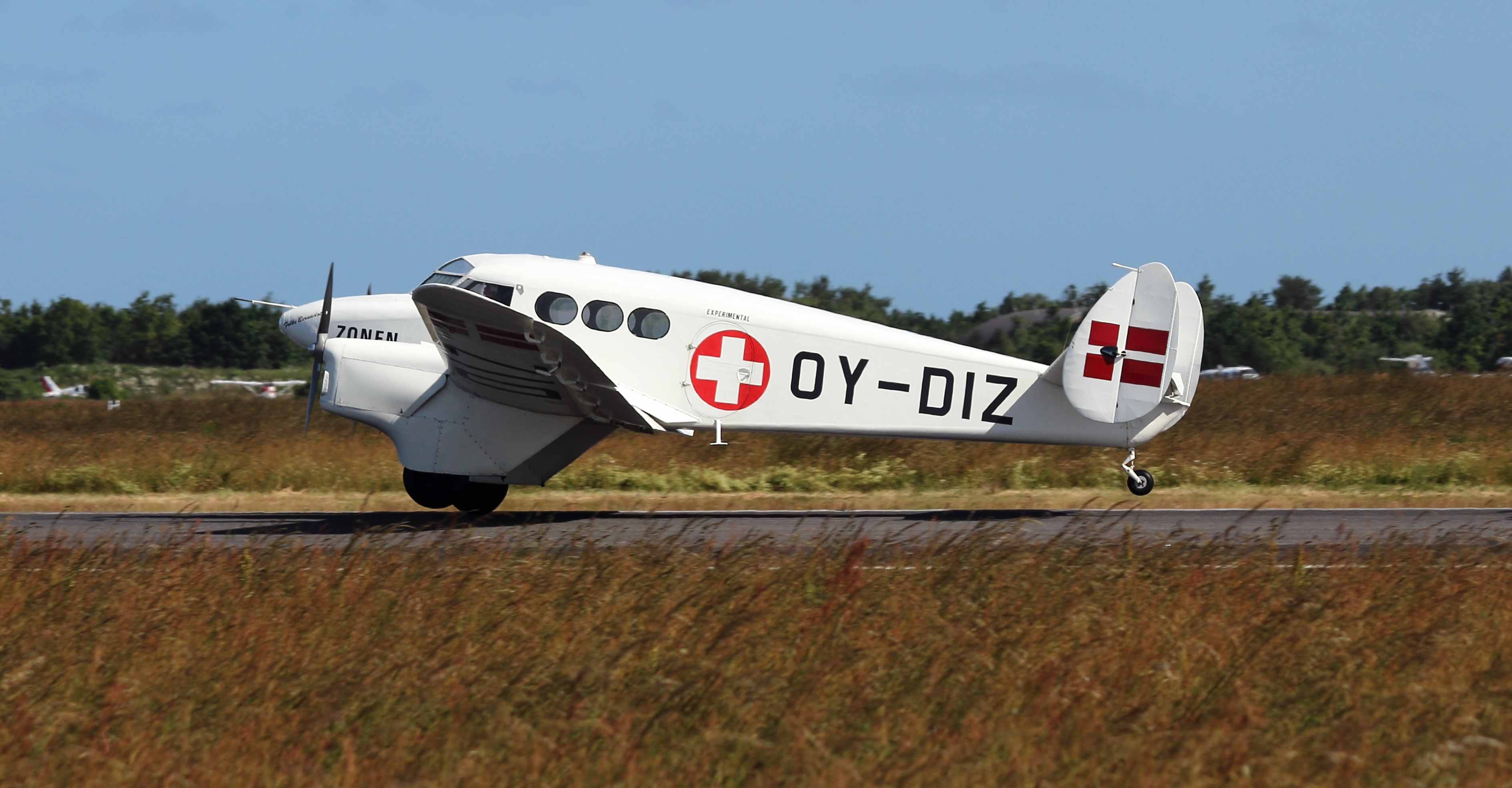 The only KZ IV still able to fly (OY-DIZ) landing at Danish Air Show 2014. First flight May 4 1944. Restored to its wartime configuration after a crash in 1977. Cropped version.